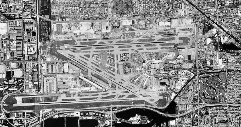 USGS orthophoto of Miami International Airport, Florida